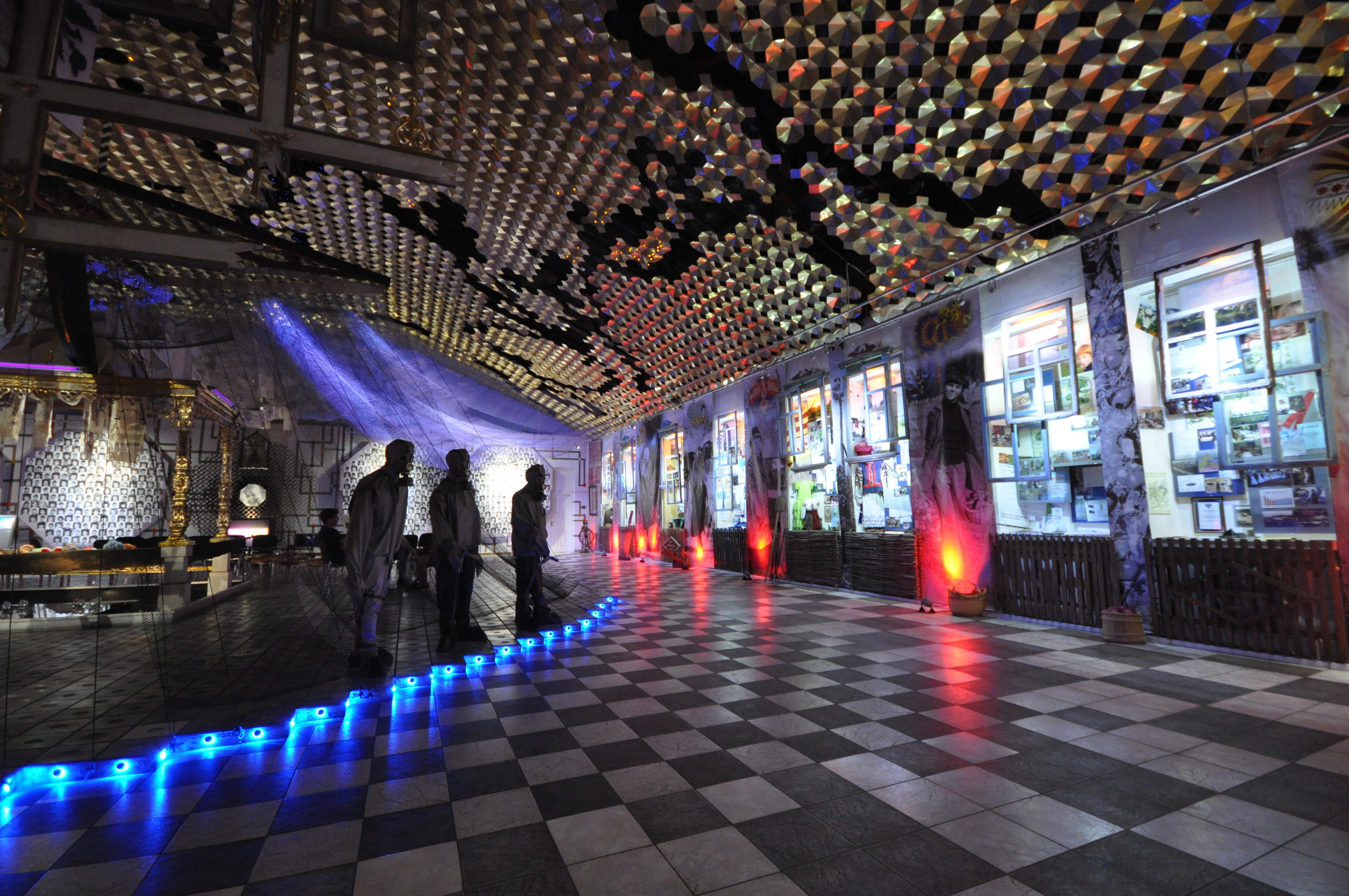 The Ukrainian National Chornobyl Museum is a history museum in Kiev, Ukraine, dedicated to the 1986 Chernobyl disaster and its consequences. It houses an extensive collection of visual media, artifacts, scale models and other representational items designed to educate the public about many aspects of the disaster. Several exhibits depict the technical progression of the accident, and there are also many areas dedicated to the loss of life and cultural ramifications of the disaster. Due to the nature of the subject material, the museum provides a very visually engaging experience. Symbolic display of "road signs" for the villages abandoned as a result of the disaster. To stress the tragedy of devastation, the signs are colored in black (instead of standard blue/white) and slashed with pink stripe (which designates "end of the settlement" on the actual signs). Above the signs is an authentic Khorugv from the abandoned village church. Museum occupies an early 20th century building which formerly housed a fire brigade and was donated in 1992 by the State Fire Protection Guard.